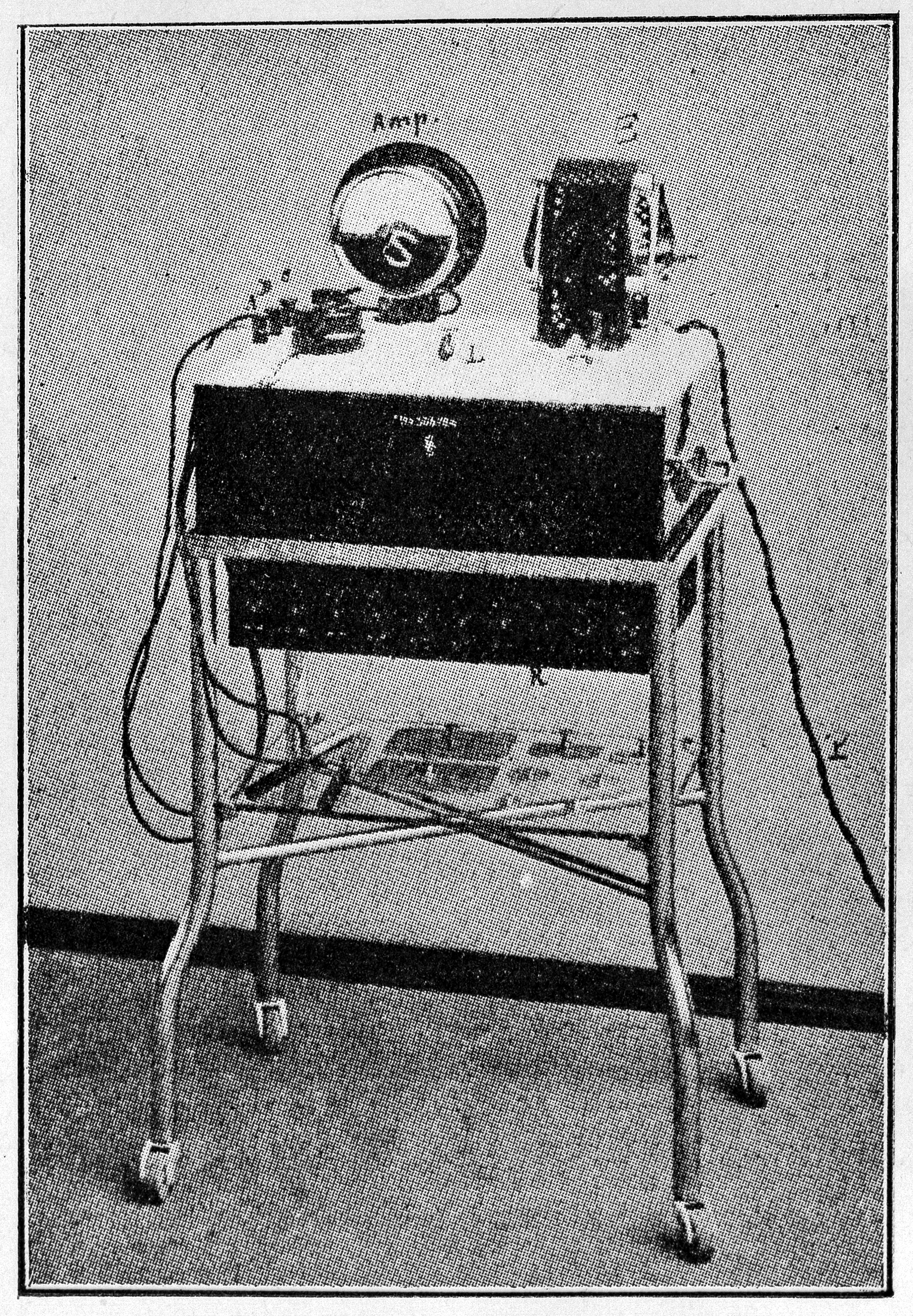 Long wave diathermy apparatus developed around 1908 by German physician Karl Franz Nagelschmidt the founder of diathermy, with which he performed the first experiments on patients. Diathermy is the therapeutic application of high frequency currents to the body for deep tissue heating. The device consisted of a spark discharge Tesla coil which produced damped waves of several thousand volts at a frequency of 1 to 3 MHz. At the top right of the unit is the series spark gap which excited oscillations in the primary circuit, at top left is a hot-wire ammeter which monitored the current passing through the patient. The current was applied to the patient's body with two metal plate electrodes resting on brine-soaked pads; the current heated the tissue between the electrodes. This was not uncomfortable for the patient because alternating currents over 10 kHz do not cause the physiological sensation of electric shock. The different electrodes are visible on the shelf under the unit. Around 1930 long wave diathermy was superseded by short wave diathermy which used frequencies of 10 to 100 MHz produced by vacuum tube oscillators. Wellcome Images Keywords: Electrotherapy